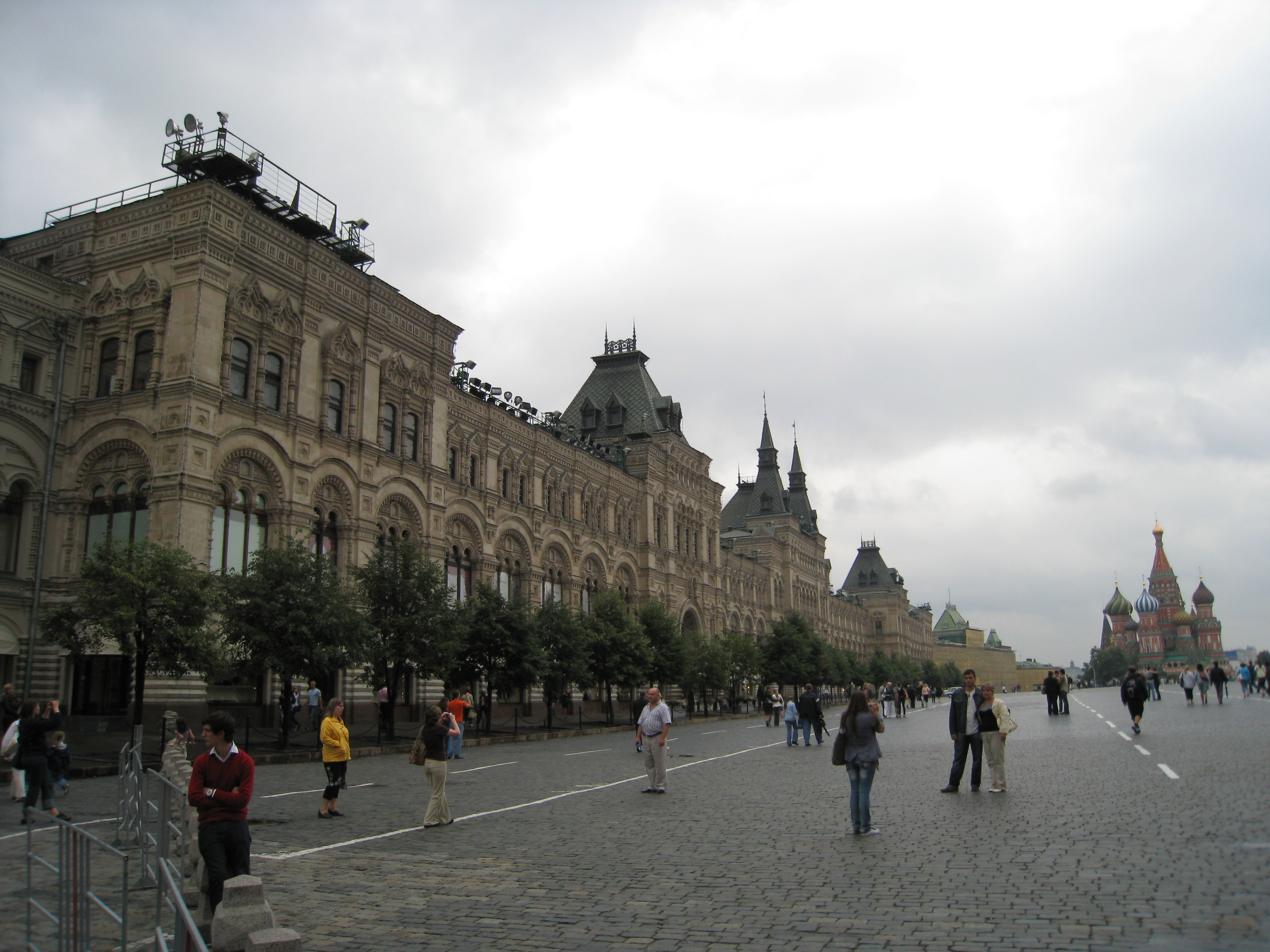 Glavnyi Universalnyi Magazin , better known as the GUM department store, is a huge shopping mall on the east side of the Red Square in Moscow. Built in 1890-93, it has an impressive 242 meters long façade - facing Kremlin on the other side of the Red Square. By the time of the Russian Revolution, the building contained some 1,200 stores. After the Revolution, the GUM was nationalised and continued to work as a department store until Joseph Stalin turned it into office space in 1928 for the committee in charge of his first Five Year Plan. After the suicide of Stalin's wife Nadezhda in 1932, the GUM was used to display her body. After reopening as a department store in 1953, the GUM became one of the few stores in the Soviet Union that was not plagued by shortages of consumer goods, and the queues to purchase anything were long, often extending all across Red Square.